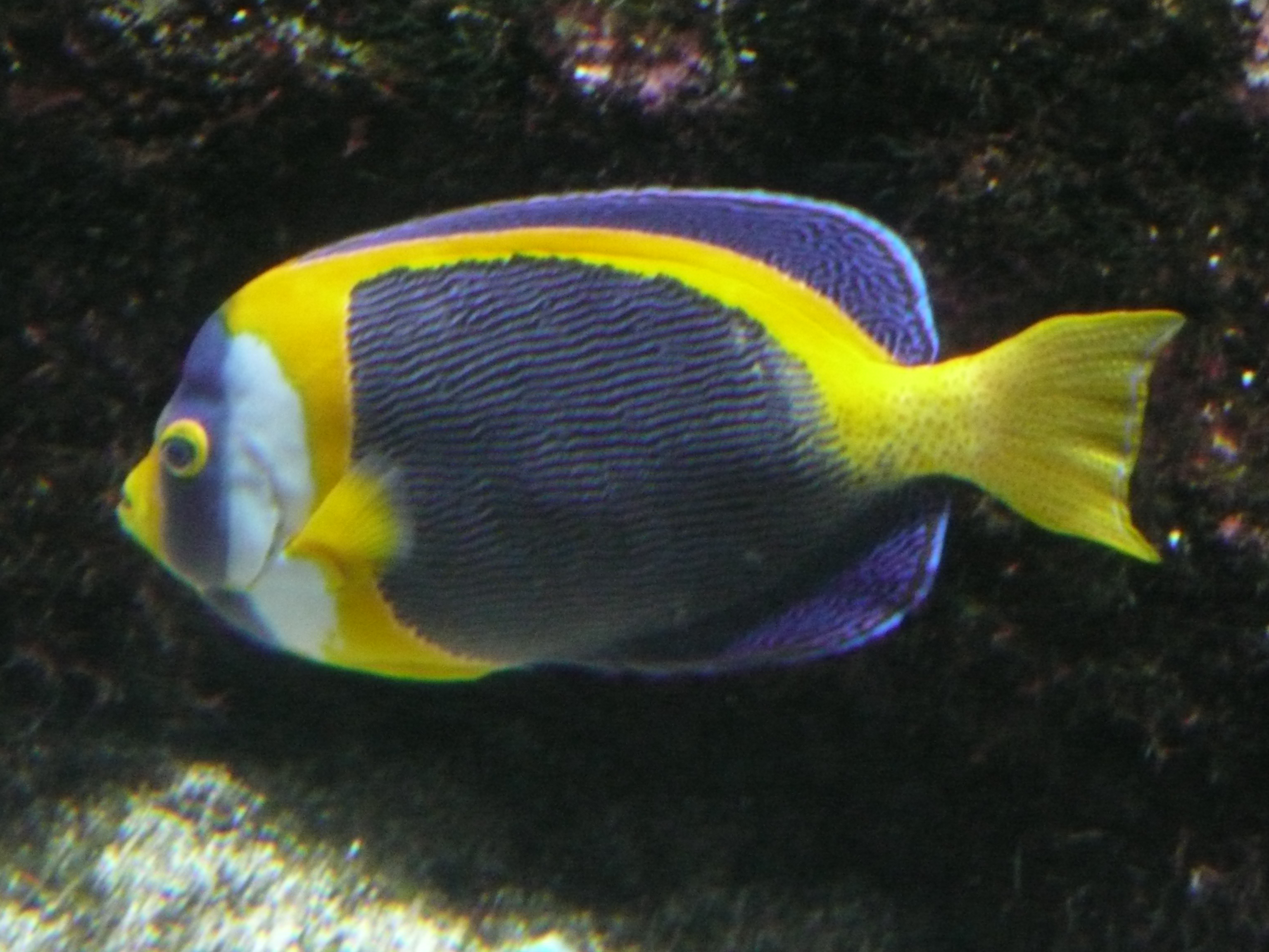 Chaetodontoplus duboulayi in the Aquarium de La Rochelle